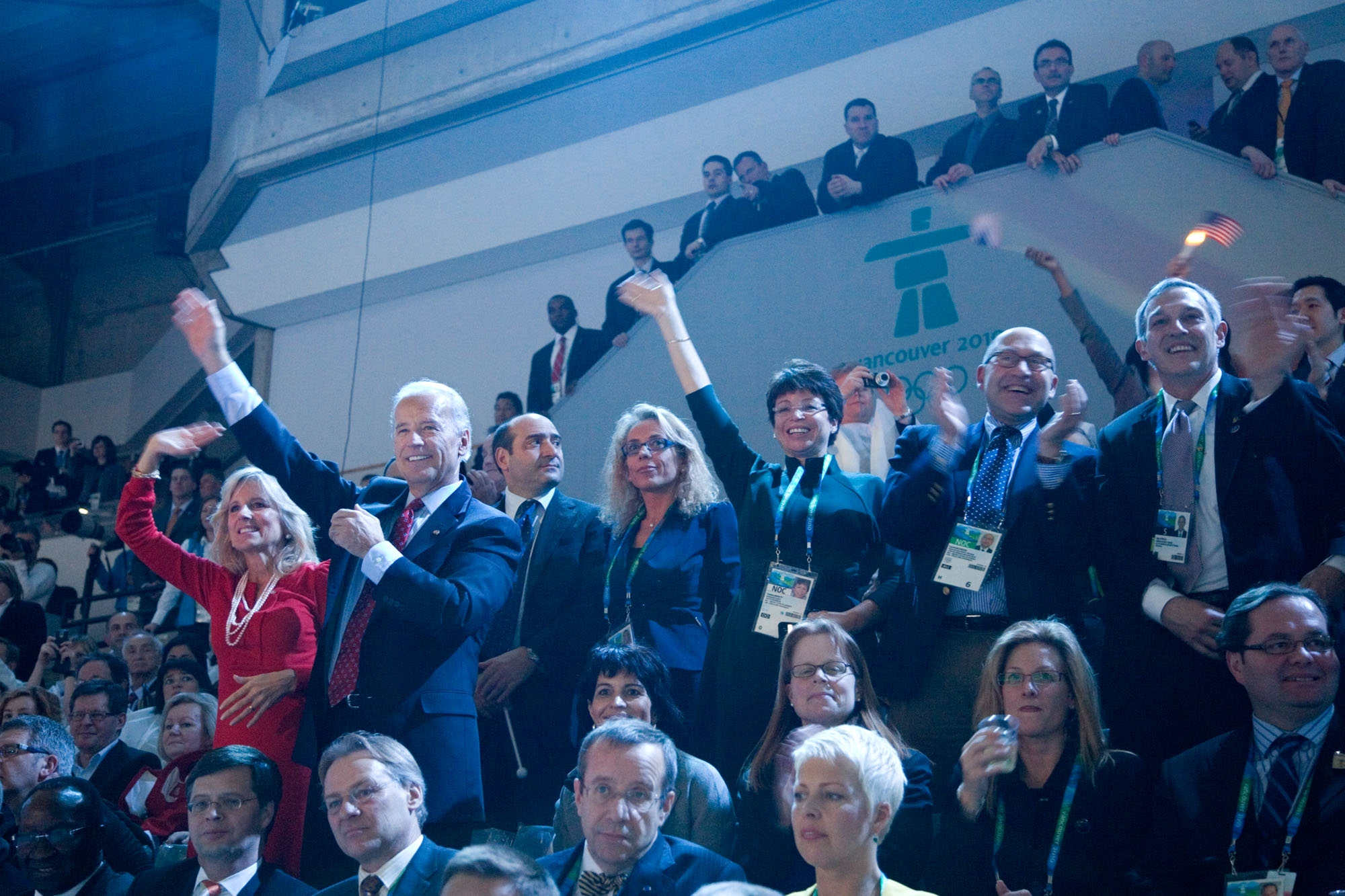 Vice President Joe Biden, Dr. Jill Biden, Valerie Jarrett, and U.S. Ambassador to Canada David Jacobson wave to the U.S. Olympic team as they enter the arena for the Opening Ceremonies of the 2010 Winter Olympics in Vancouver, Canada.